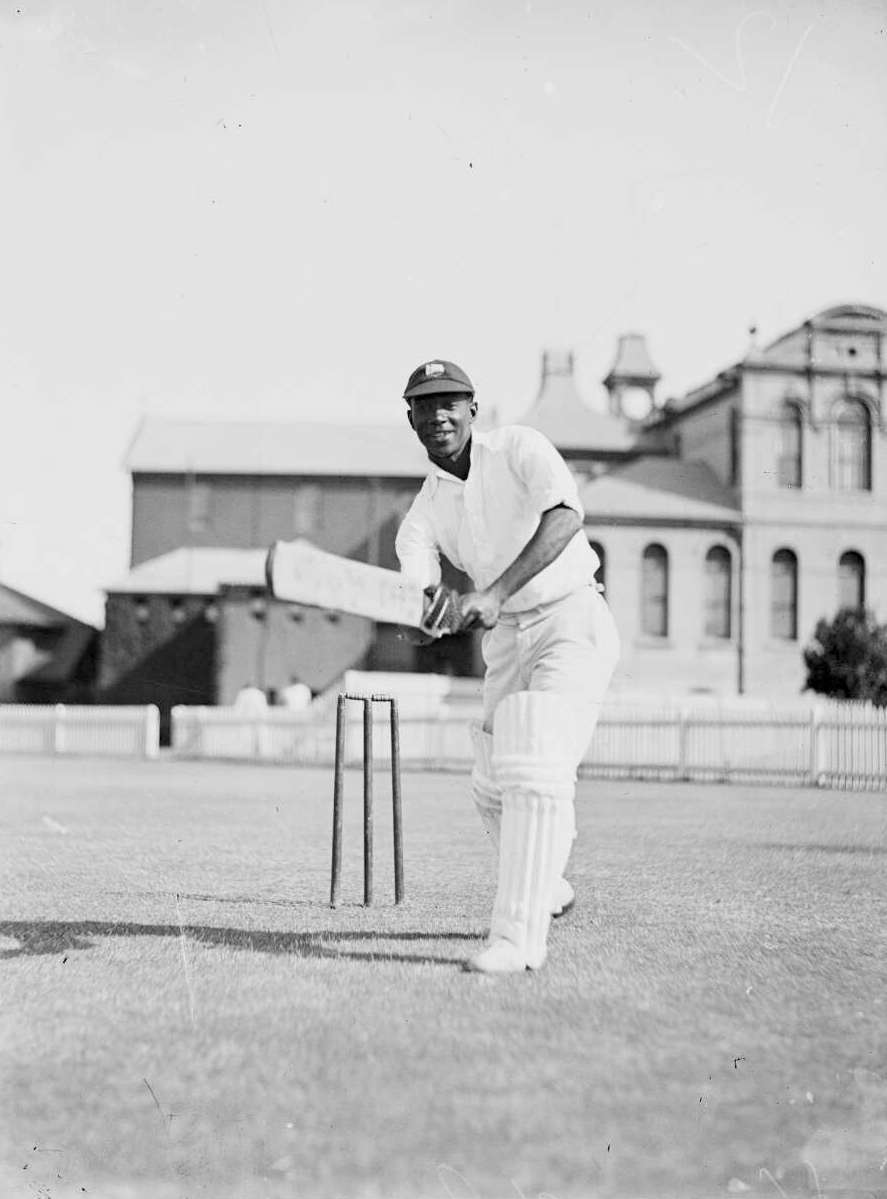 George Headley demonstrating his batting technique during the West Indian cricket team's 1930–31 tour of Australia.